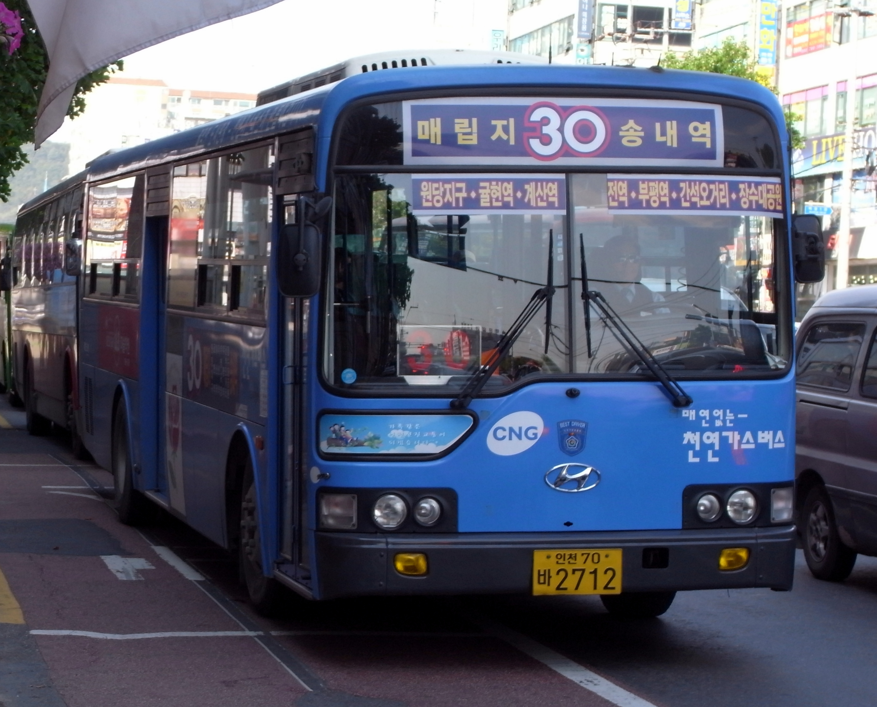 Incheon City Bus No 30 in Gyesan, Korea